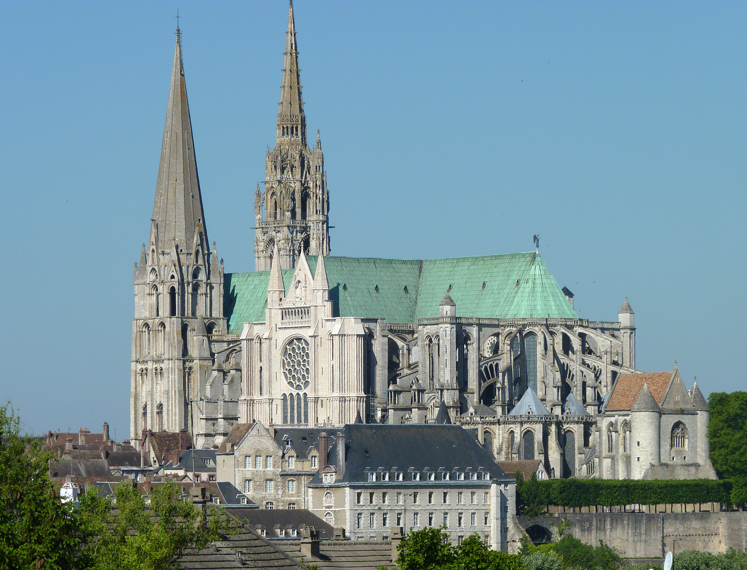 Chartres Cathedral, High Gothic - view from south-east